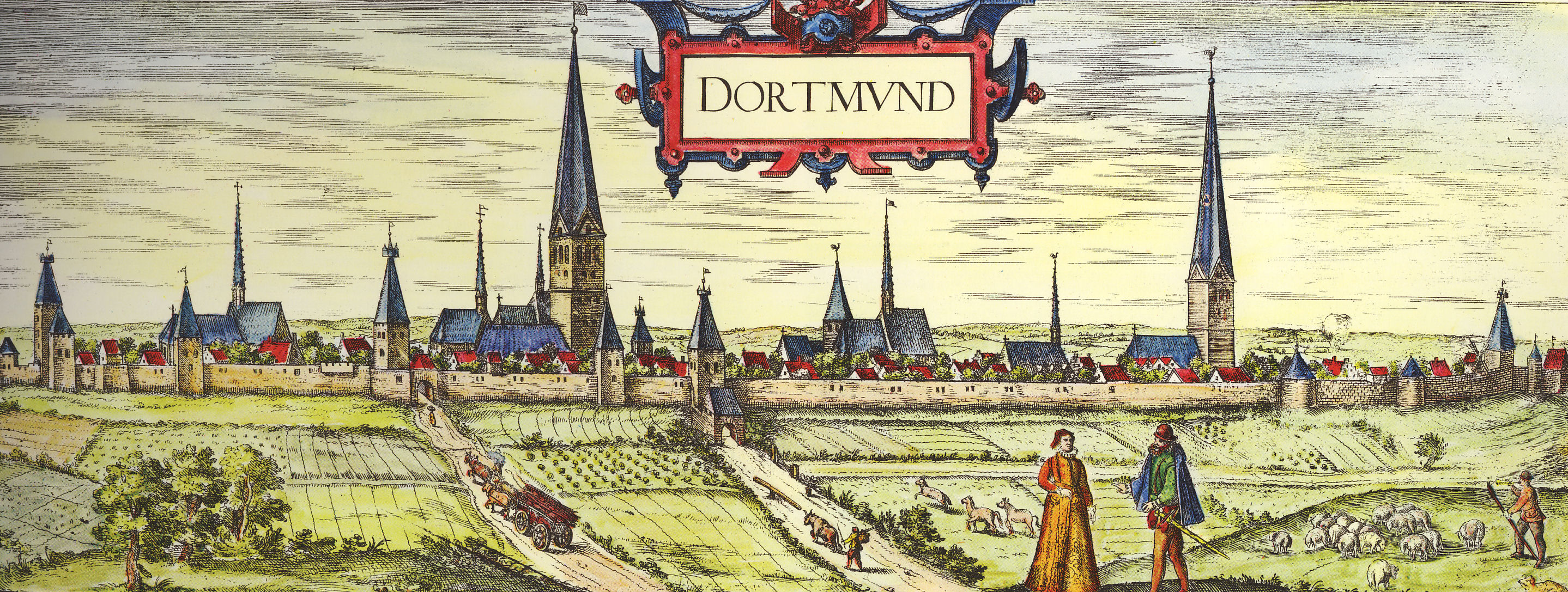 historical view of the German town of Dortmund by Georg Braun and Franz Hogenberg (between 1572 and 1618)